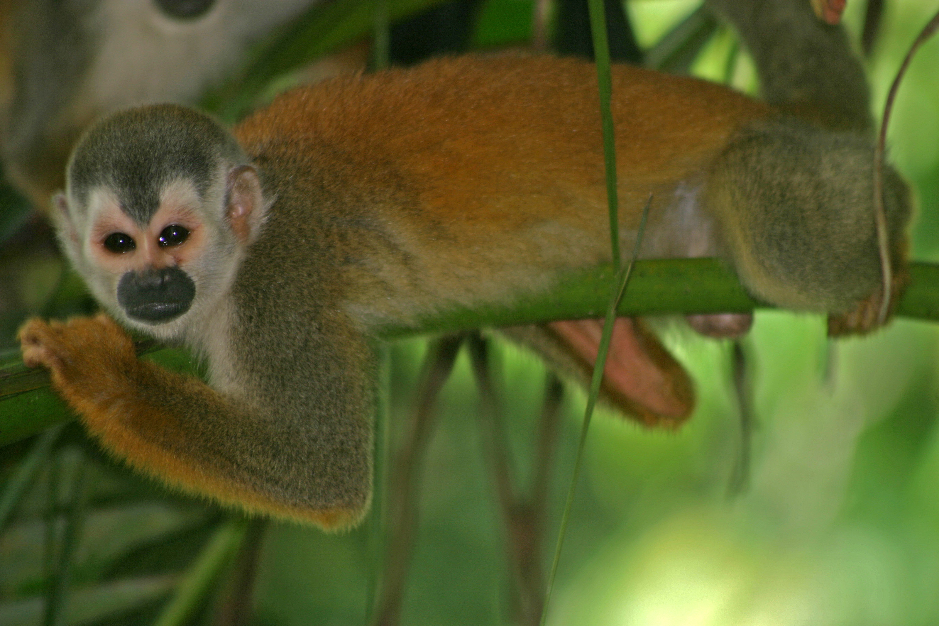 Central American Squirrel Monkey (Saimiri oerstedii)